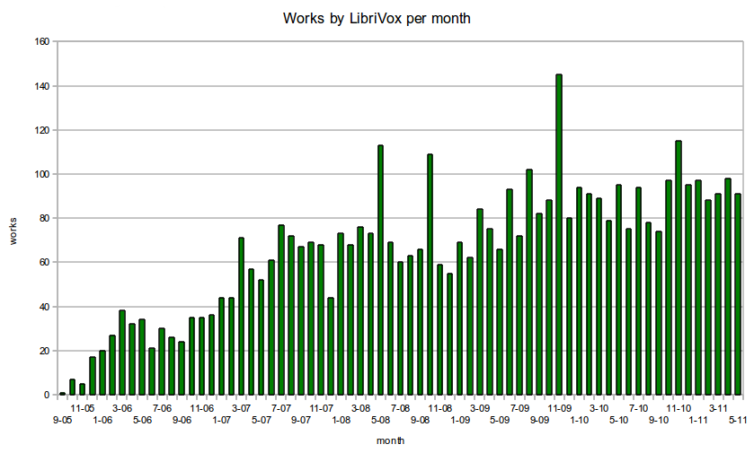 Diagram of LibriVox produced works per month including May 2011 using this data.